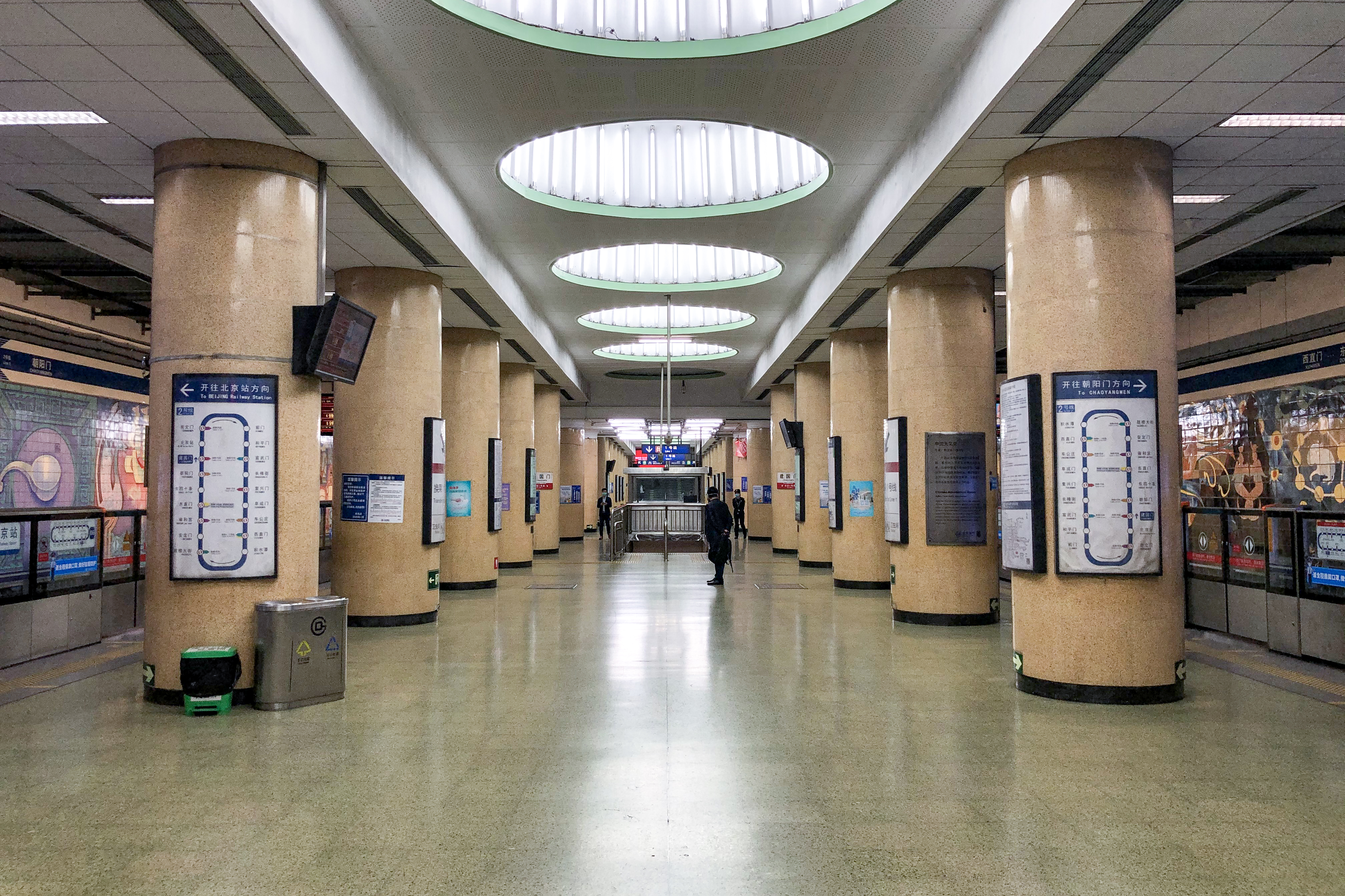 Chinese Astronomical History by Yuan Yunfu and Qian Yuehua (counter-clockwise), and Four Great Inventions by Yan Dong (clockwise).